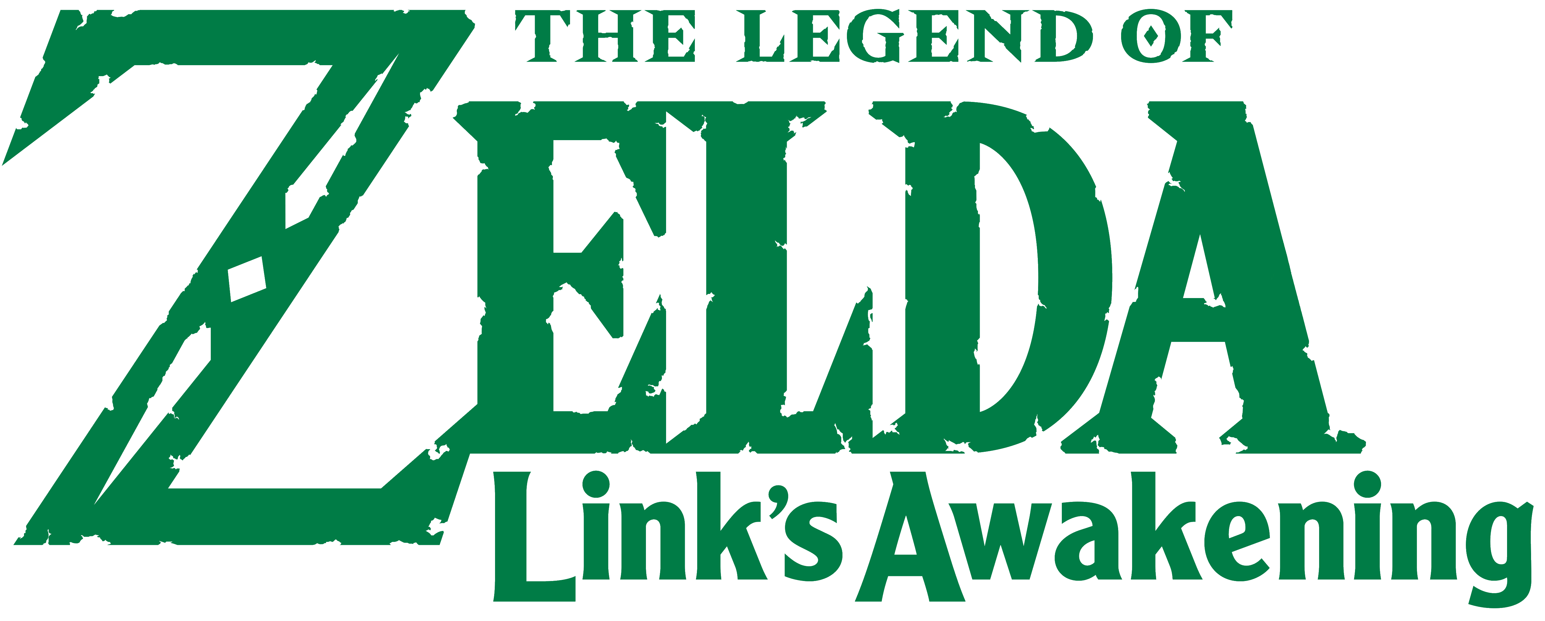 Logotype of The Legend of Zelda: Link's Awakening (2019).